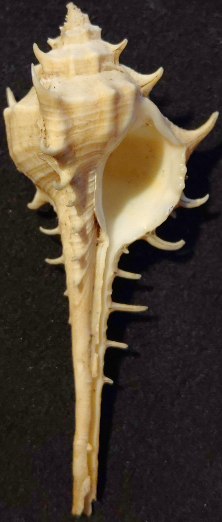 Murex Occa Front.